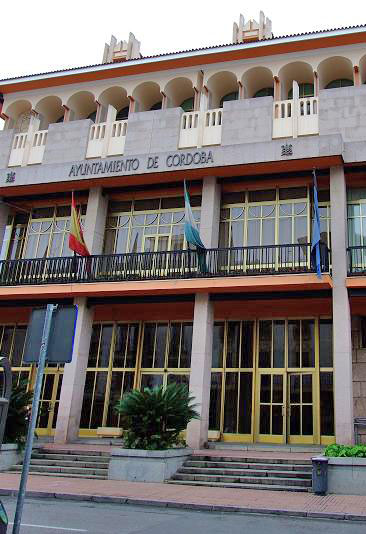 Córdoba City Hall, in Córdoba (Spain).